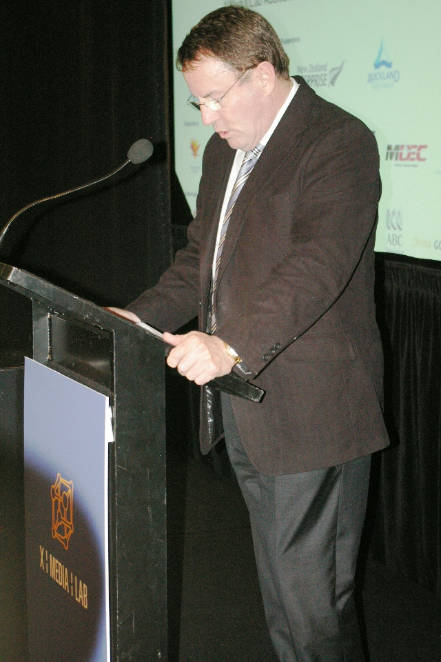 Lord Mayor John Banks at XML Auckland "Commercialising Ideas"